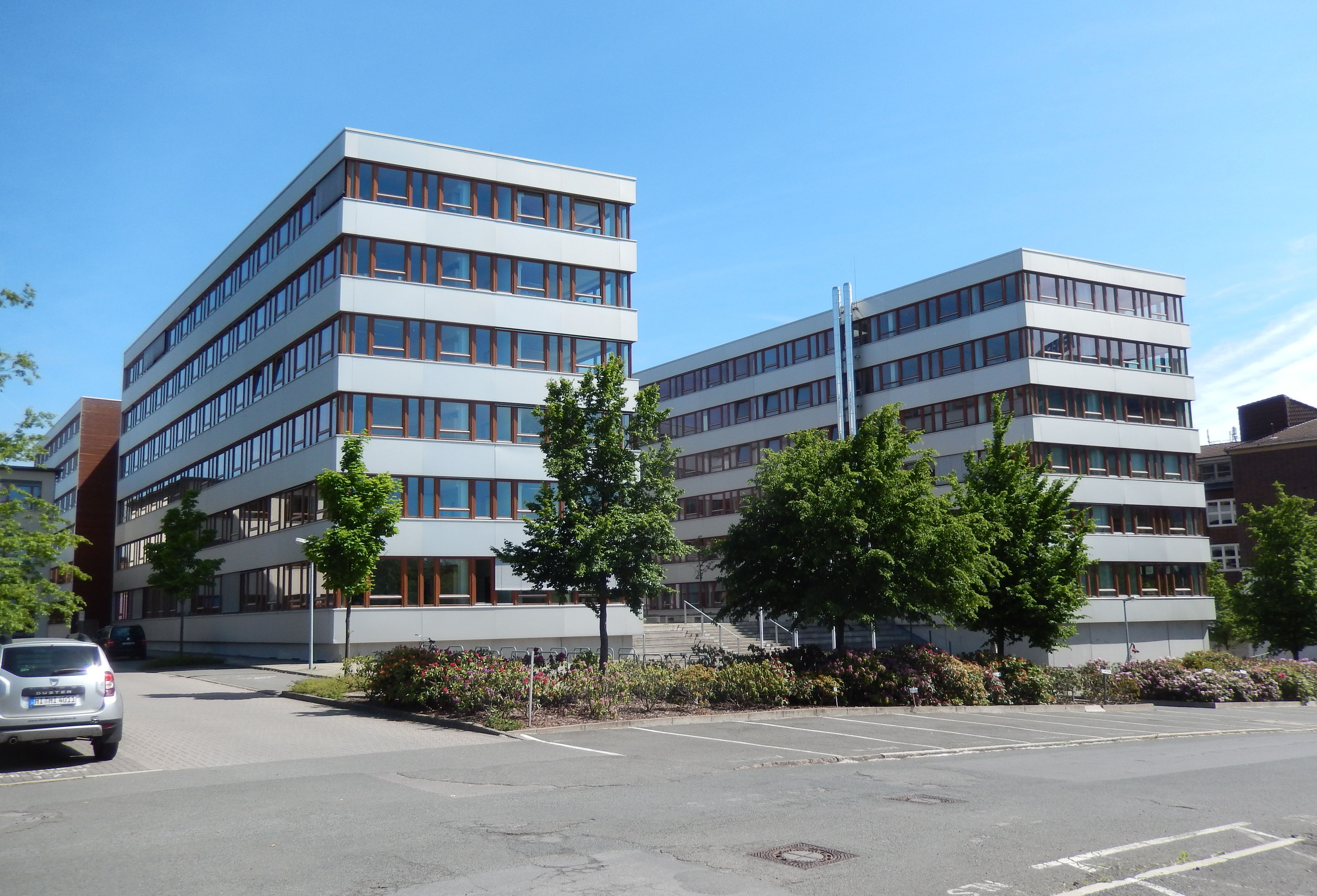 Office building in Hannover, Germany.